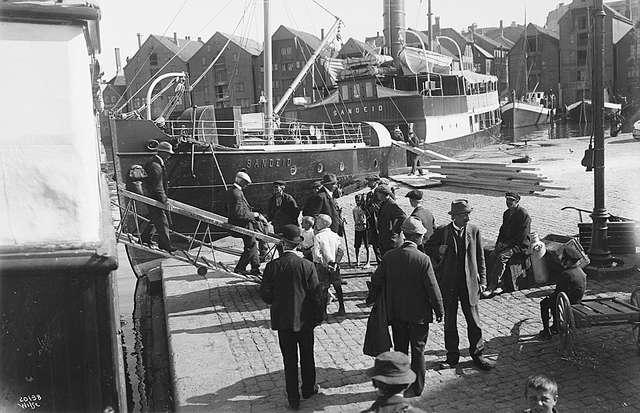 Norwegian steamship SS Sandeid built in 1892 as «Sandnæs». Picture is taken in Stavanger harbor